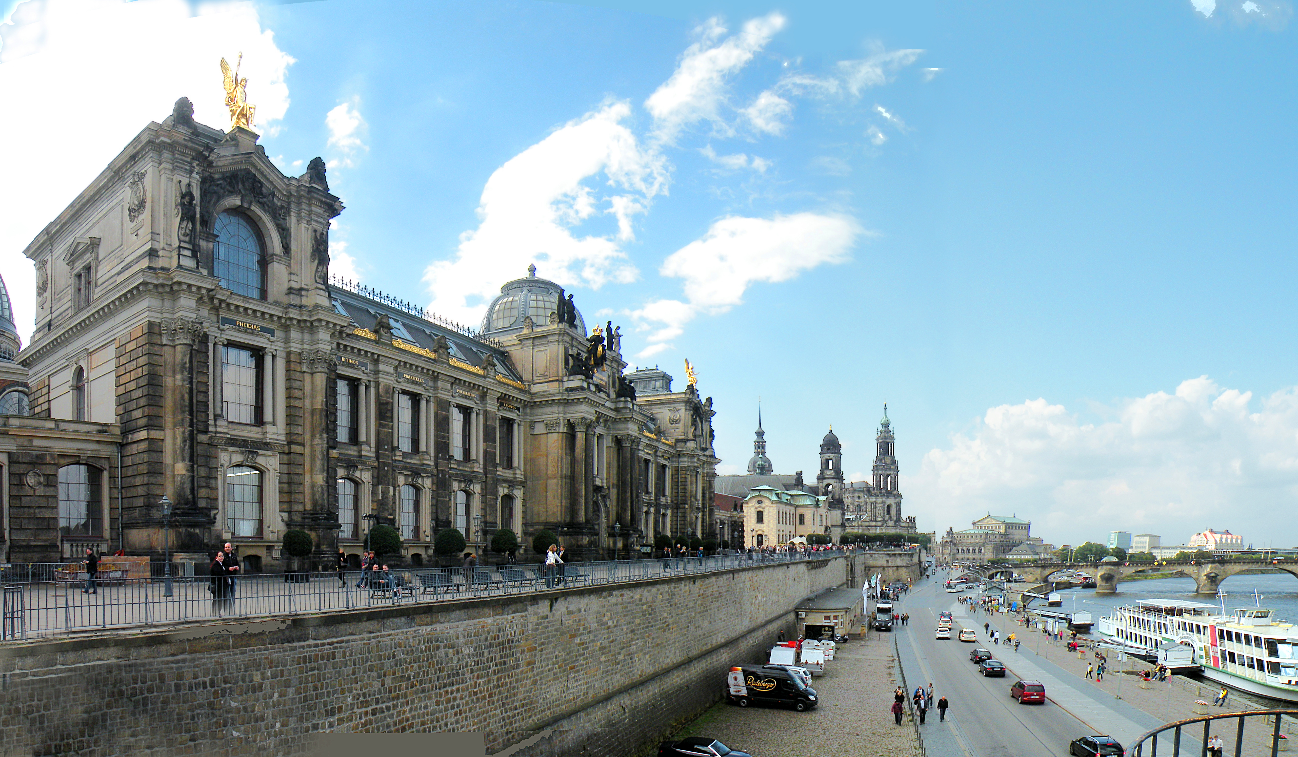 Dresdner_Comedy_und_Theatr_Club.